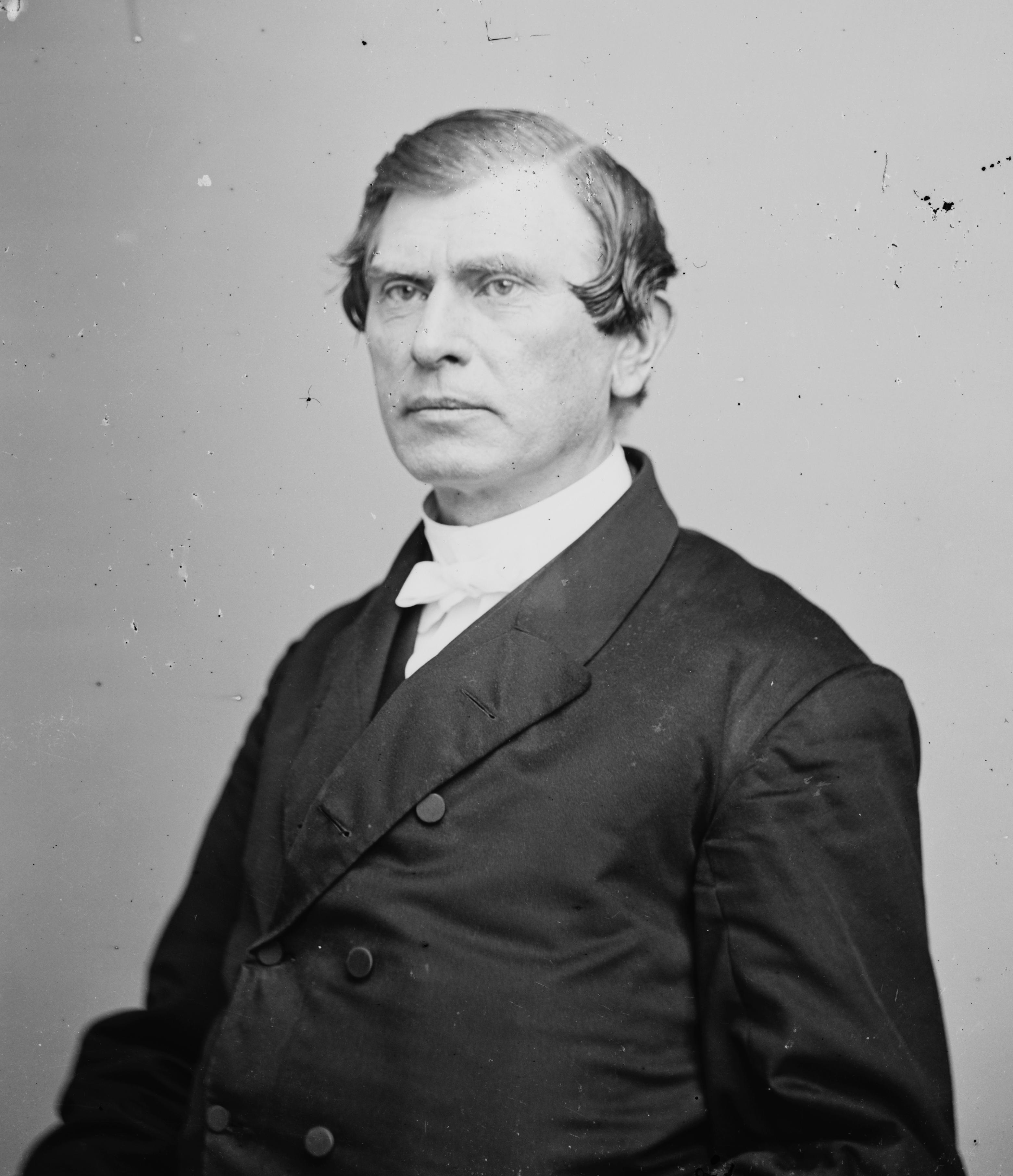 Matthew Simpson. Library of Congress description: "Bishop (Matthew) Simpson"